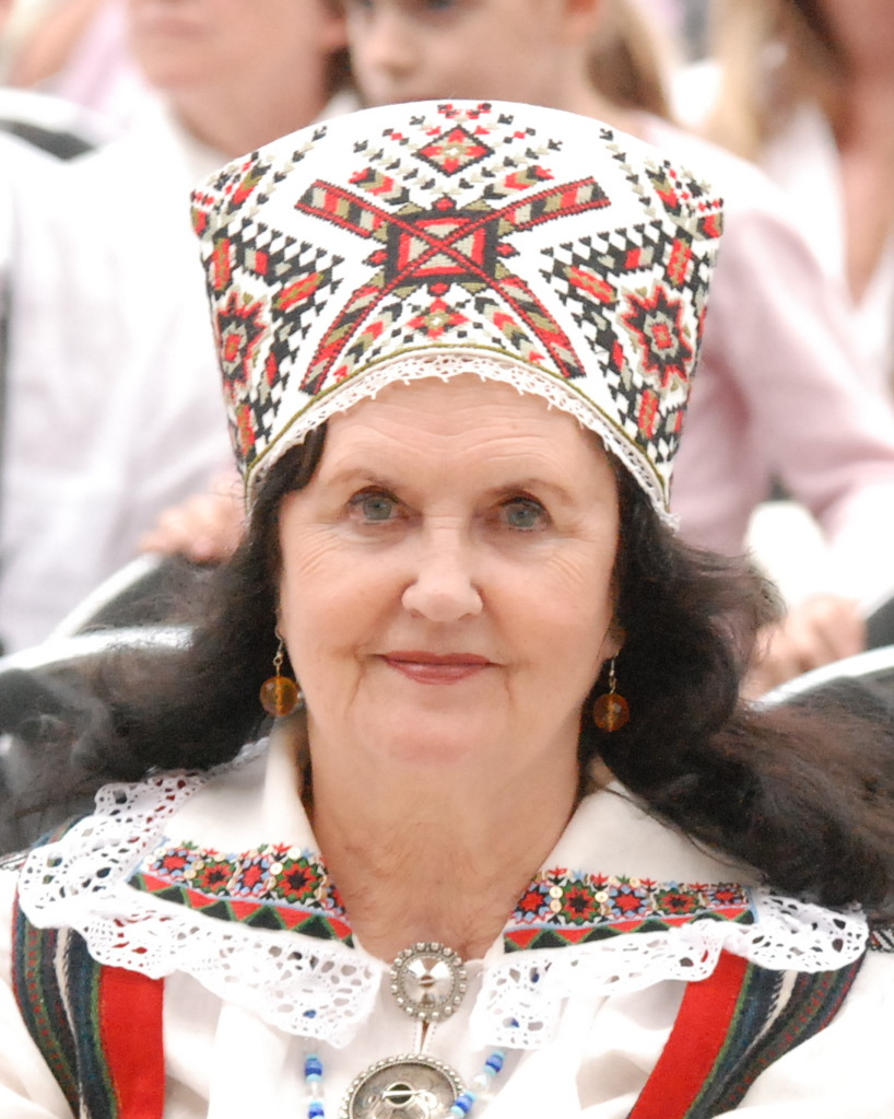 Estonian folklorist, philologist, and former First Lady Ingrid Rüütel at the XXV Estonian Song Celebration in 2009.